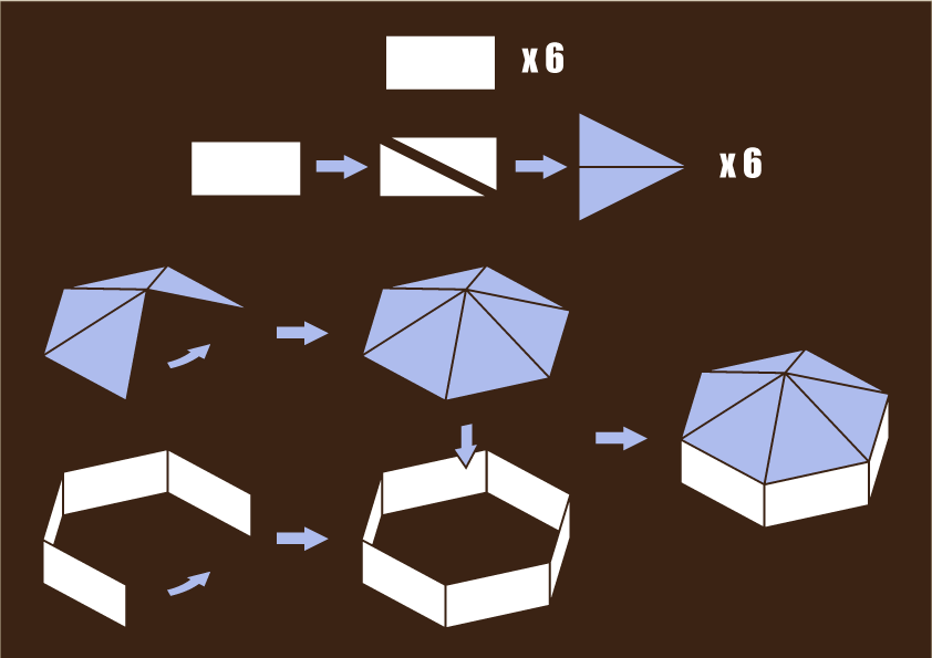 Image showing how to construct a hexayurt.